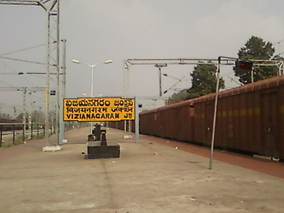 Vizianagaram train station Platform 5, Andhra Pradesh